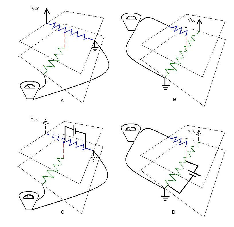 Electronic description of resistive touchscreen